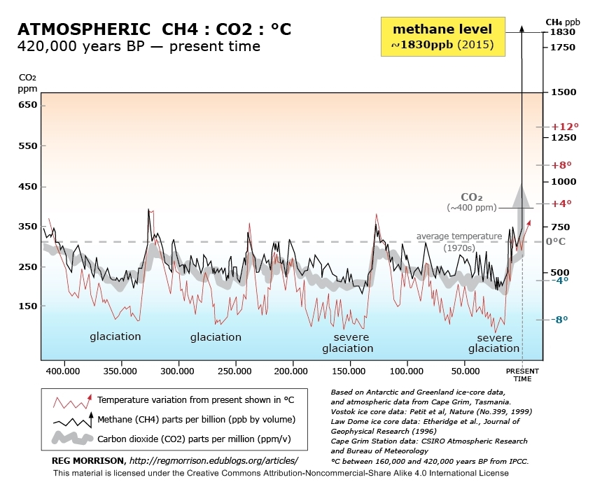 Graph showing Atmospheric CH4 parts per billion : CO2 parts per million : temperature °C variation from present temperatures, from 420,000 year Before Present to Present time. The correlation between CH4 methane concentrations and average earth temperatures is closer than with CO2 carbon dioxide. As can be seen, current levels of CO2 @400ppm correlate with +4°C, well above the +2°C limits proposed by IPCC. But current levels of CH4 methane @1830ppb (2015) correlate with more than +12°C earth temperature increase. Based on Antarctic and Greenland ice-core data and atmospheric data from Cape Grim station, Tasmania. Vostok ice core data: Petit et al, Nature (No. 399, 1999). Low Dome ice core data: Etheridge, et al, (Journal of Geophysical Research 1996). Cape Grim Station data: CSIRO Atmospheic Research and Bureau of Meteorology. °C between 160,000 and 420,000 years BP from IPCC. Graph by Reg Morrison This material is licensed under the Creative Commons Attribution-Noncommercial-Share Alike 3.0 Int’l